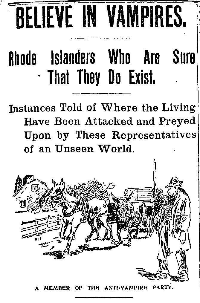 Headline and editorial cartoon for a story on superstitious beliefs in rural Rhode Island including Mercy Brown.